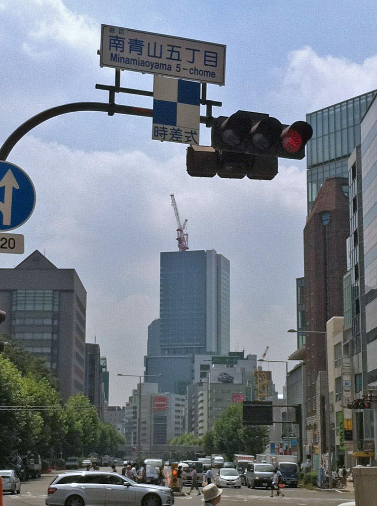 This is Aoyama street.